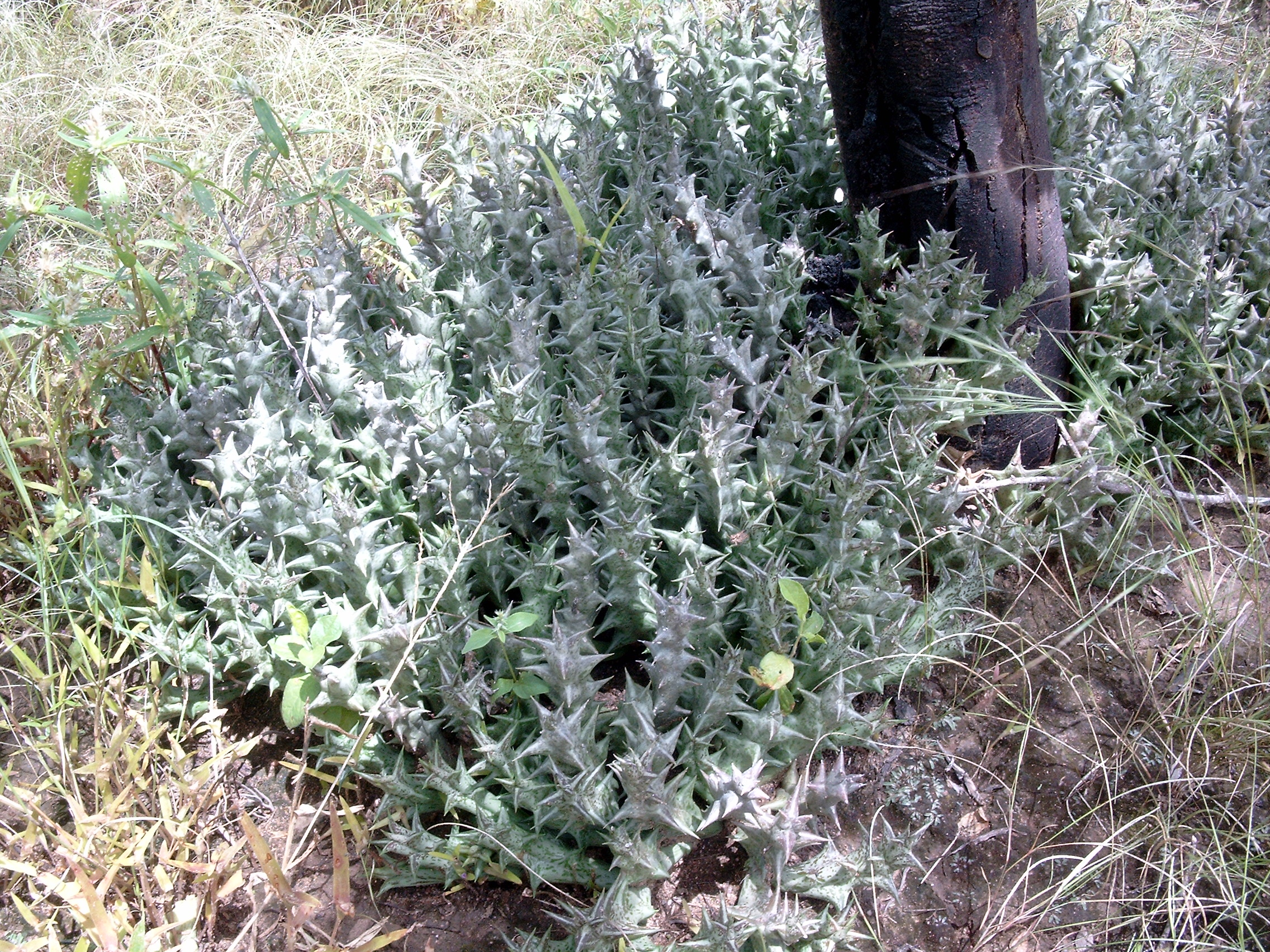 Orbea decaisneana near Bogandé, eastern Burkina Faso